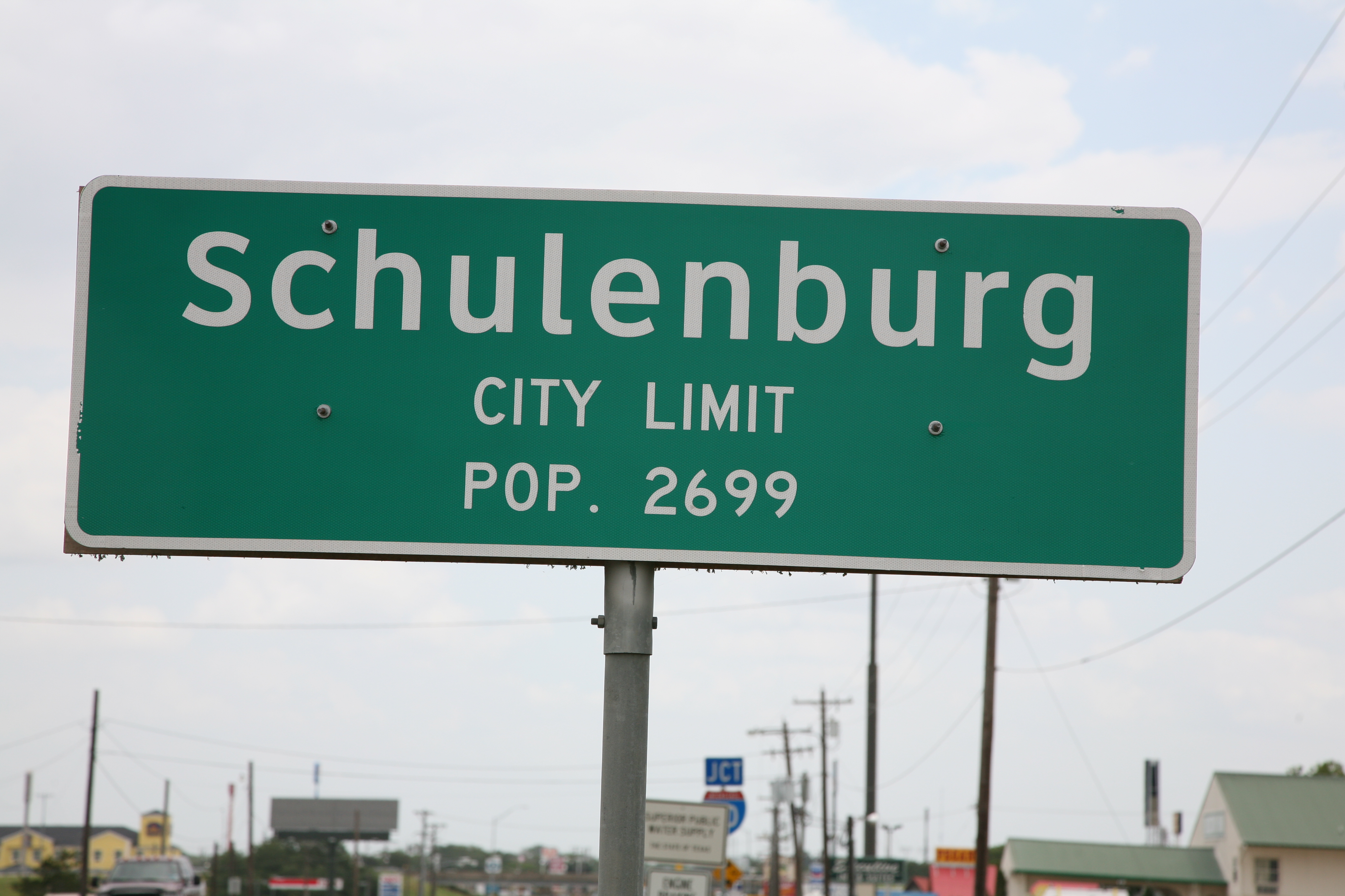 City limit sign in Schulenburg, Texas, USA